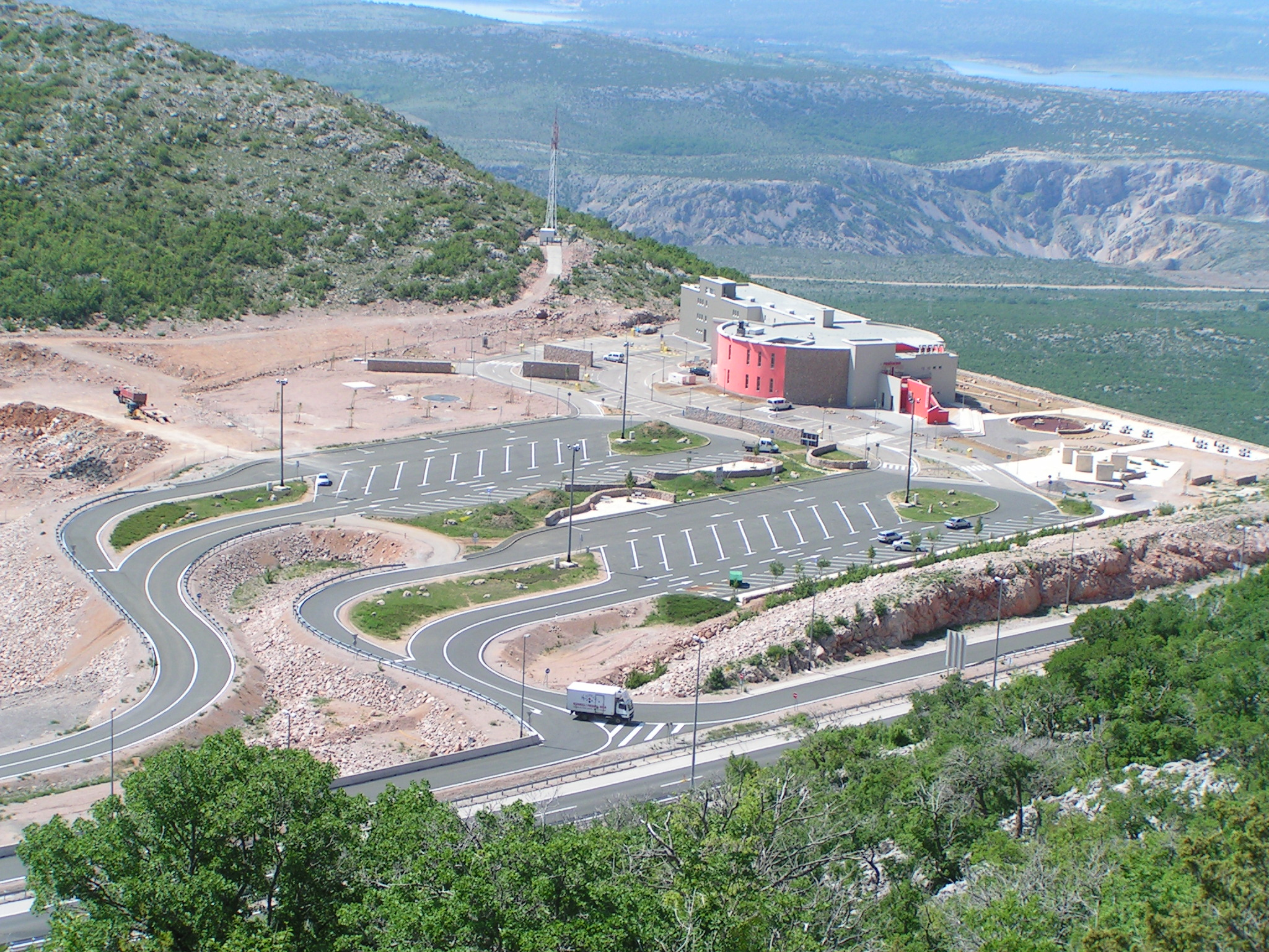 Maruna a resting place on the A1 motorway, Croatia.